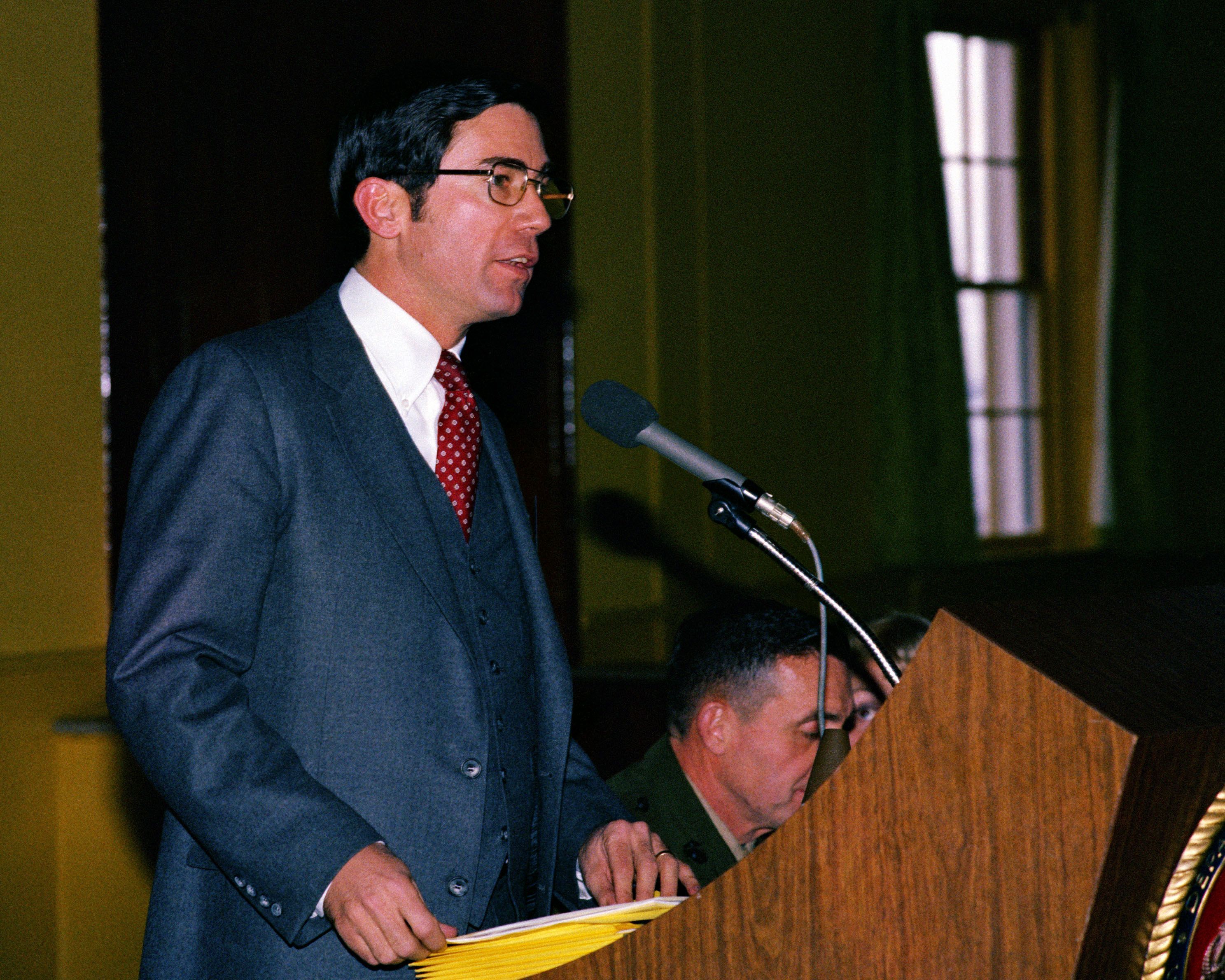 "Marine Corps Development Education Command, Quantico, Virginia. Virginia's Lieutenant Governor Charles Robb, a former Marine officer, speaks to the guests at a luncheon during the Virginia General Assembly's tour of the Marine base Location: MARINE CORPS BASE, QUANTICO, VIRGINIA (VA) UNITED STATES OF AMERICA (USA)"